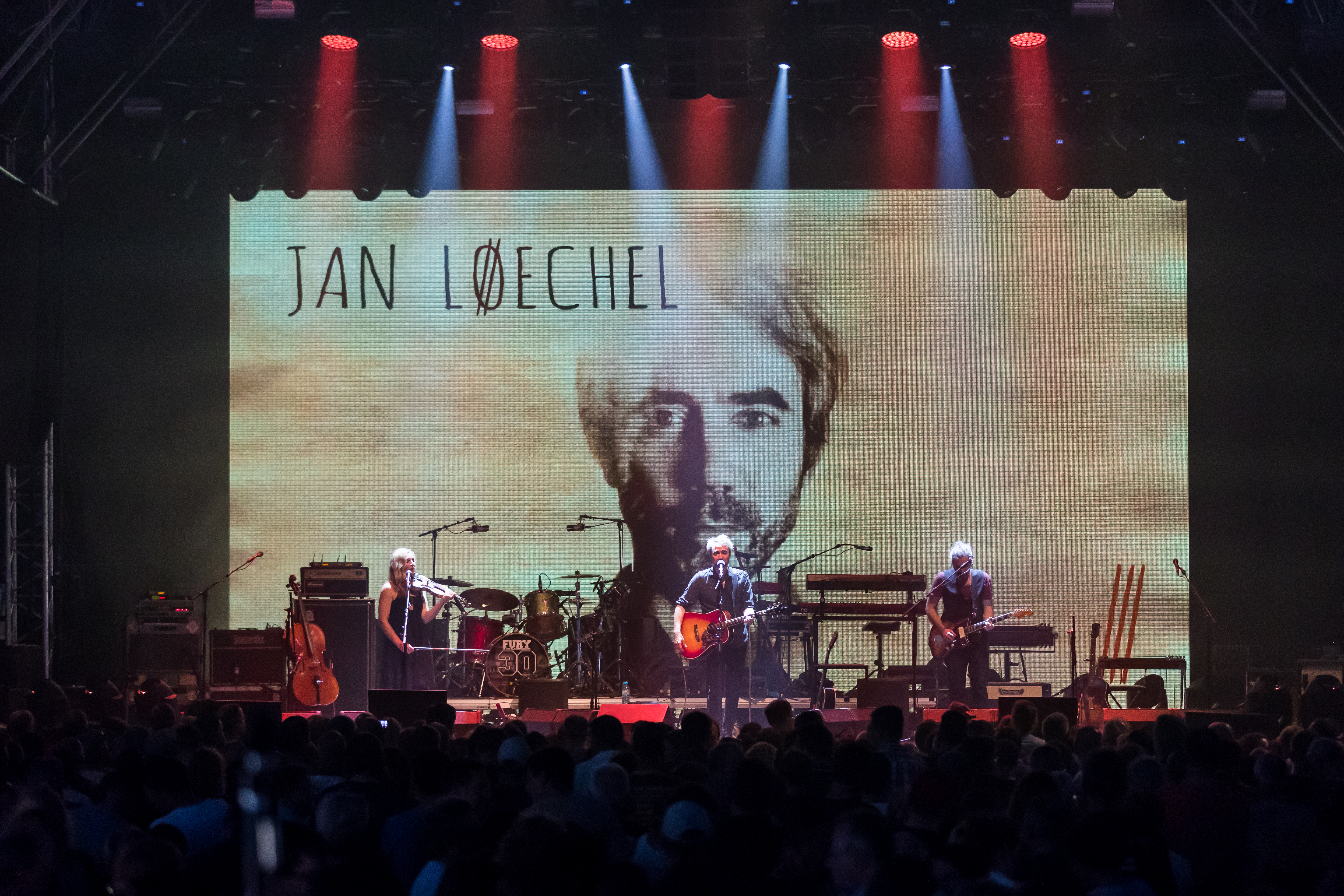 Jan Löchel support for Fury in the Slaughterhouse during Zeltfestival Rhein-Neckar at Maimarkt, Mannheim, Baden-Württemberg, Germany on 2017-06-14, Photo: Sven Mandel